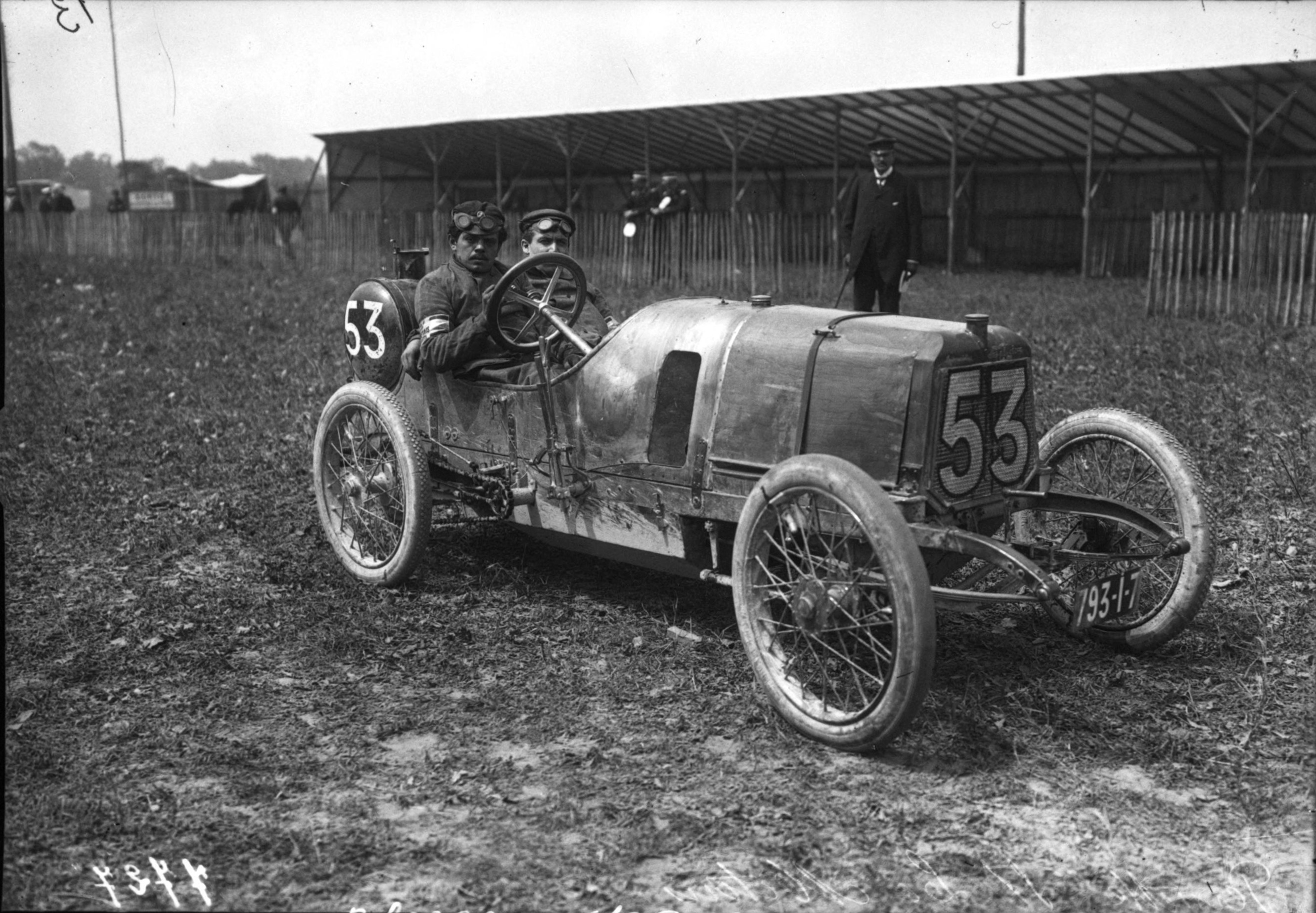 Pernette in his Le Métais at the 1908 Grand Prix des Voiturettes at Dieppe.